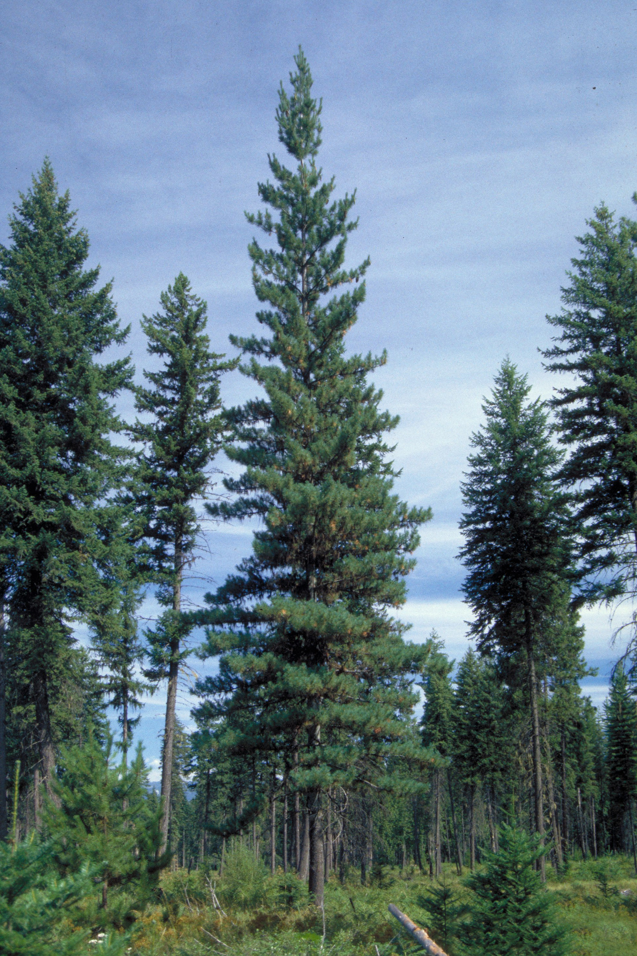 Pinus monticola (center) and Pseudotsuga menziesii (background). Idaho, USA.